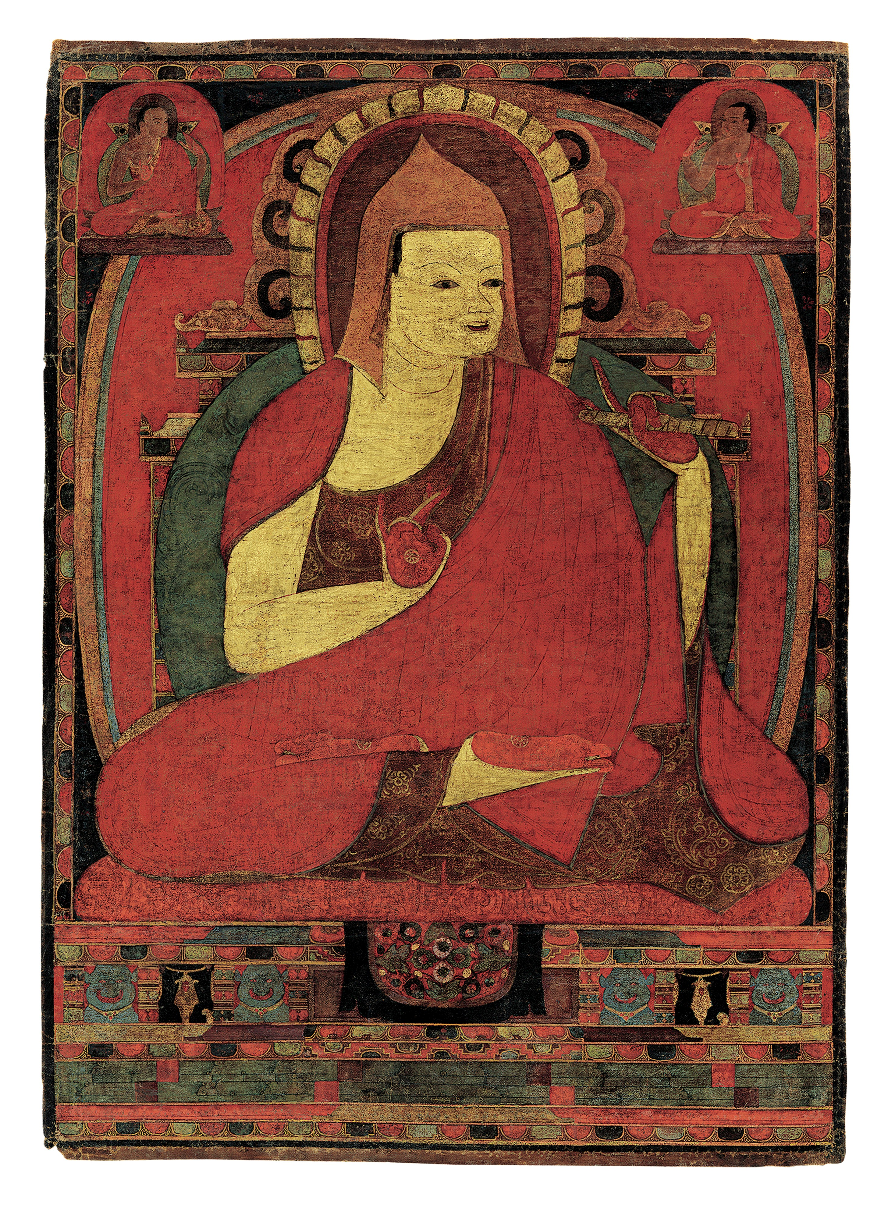 Portrait of the Indian Monk Atisha. Tibet, Distemper and gold on cloth, Image: 19 1/2 x 13 15/16 in. (49.5 x 35.4 cm) Framed: 32 13/16 x 21 11/16 in. (83.3 x 55.1 cm). Atisha was the abbot of the great Vikramashila monastery in north India, one of the mahaviharas who granted the learned degree of pandita, here indicated by his yellow hat. In 1042 he traveled to Tibet at the invitation of the Western Tibetan king Yeshe ‘Od to help purify Buddhist practices there. Atisha’s authority was rooted in his lineage, an unbroken chain of pupil-guru relationships going back to the Buddha himself. This portrait of Atisha, among the oldest preserved, shows him as an enlightened being with golden skin and halo, seated on an elaborate jeweled throne. His right hand is held in the teaching gesture and he holds a bound palm-leaf manuscript in his left.